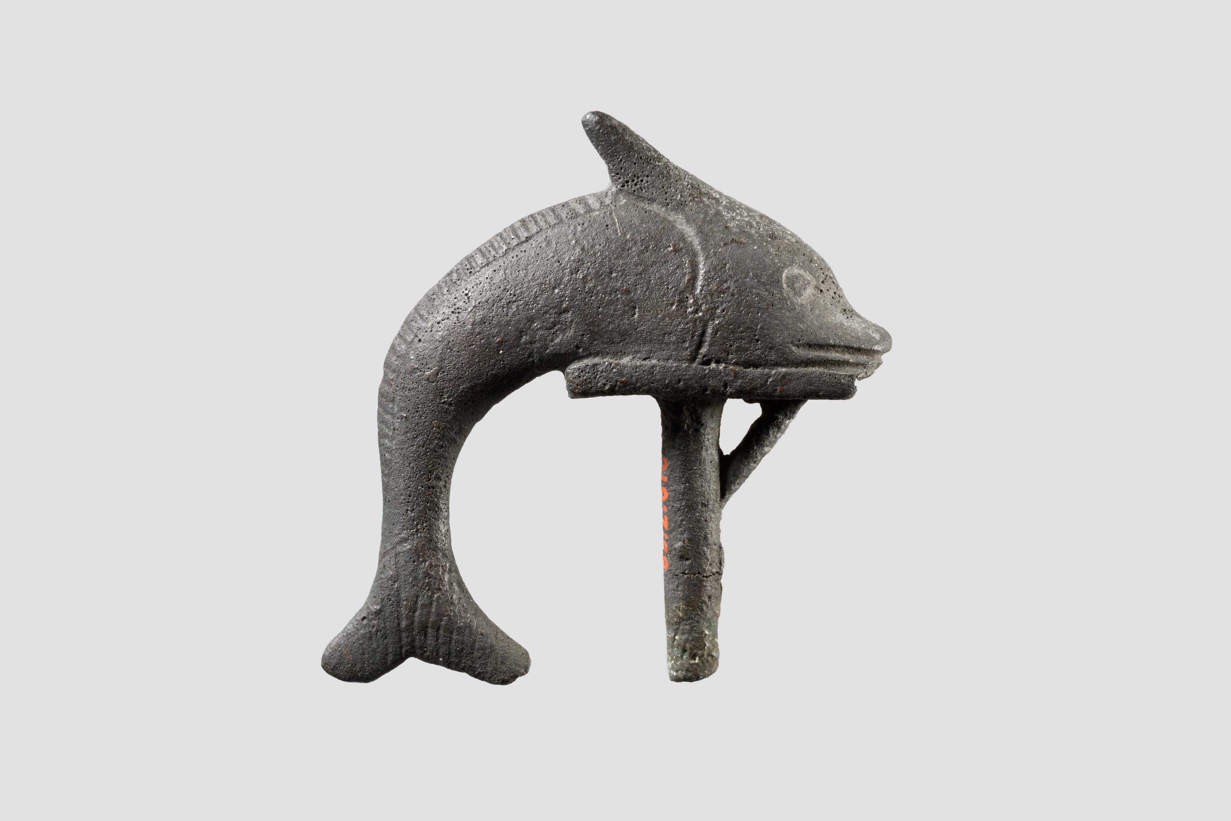 Figurine, Hatmehyt as standard